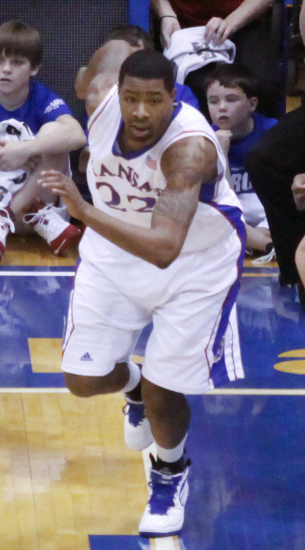 Marcus Morris playing for Kansas State